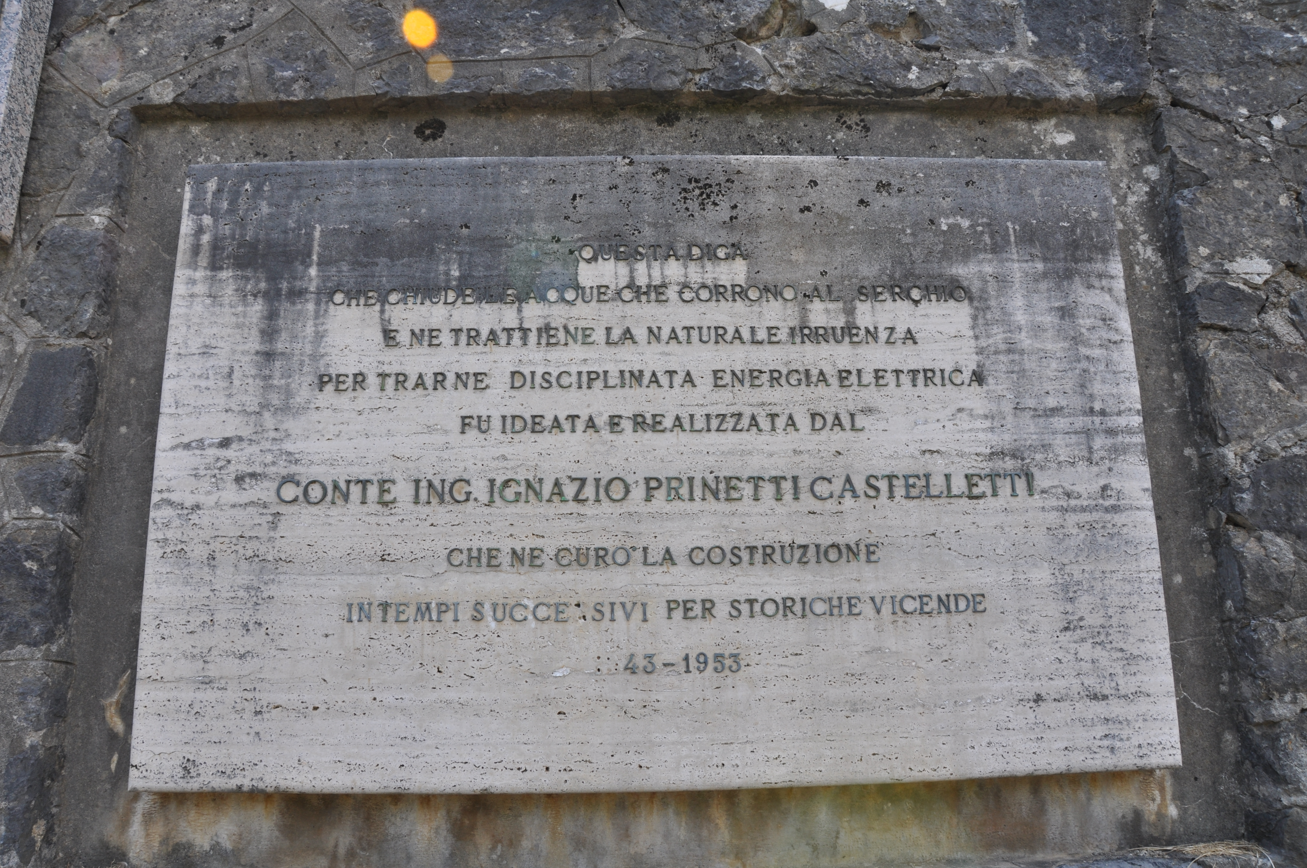 Inscribed plaque commemorating the construction of the Vagli Sotto hydroelectric dam (Italy, prov. of Lucca). Affixed on the wall between the stairs on the west bank.